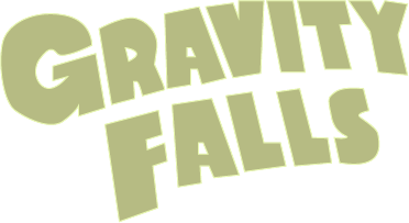 Gravity Falls all new Disney Channel